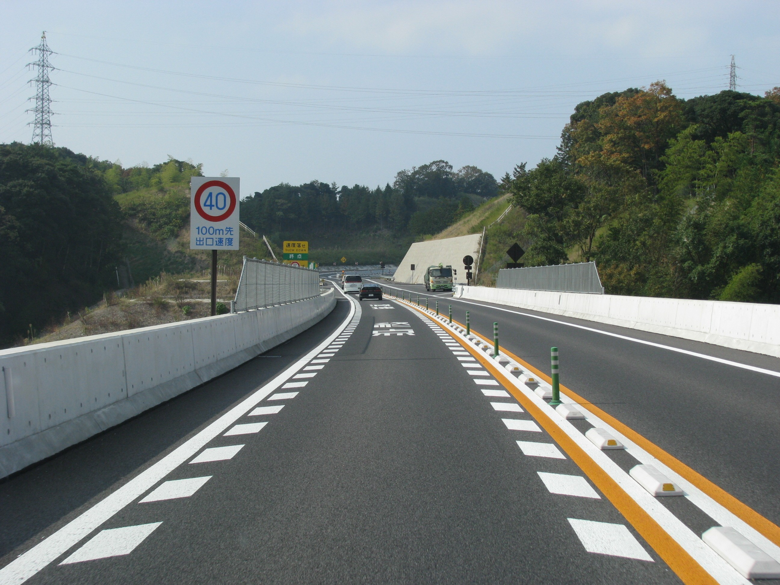 Izumo Interchange on the Sanin Expressway in Izumo City, Shimane Prefecture, Japan